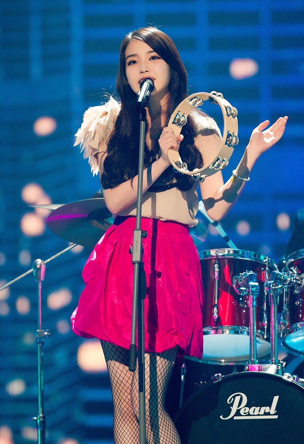 Korean singer IU performing with "Good Day" at KBS Music Festival on December 30, 2011